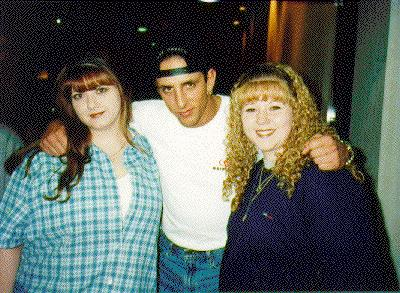 a wrestler, Billy Kidman, with 2 fans